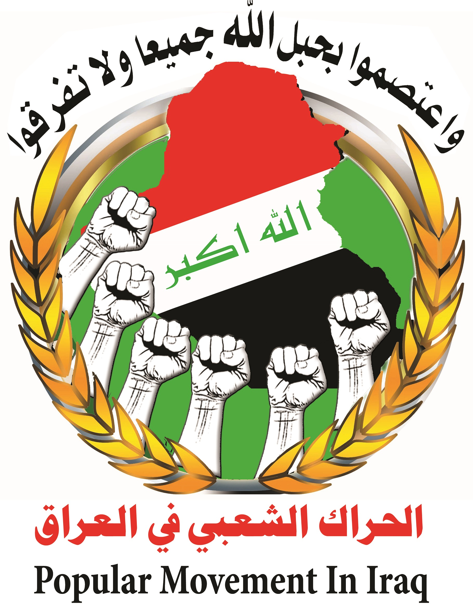 logo of Popular Movement in Iraq